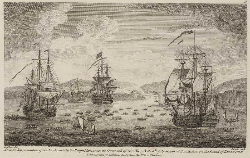 Attack and capture Belle Isle in 1761 by the English fleet during the Seven Years' War.